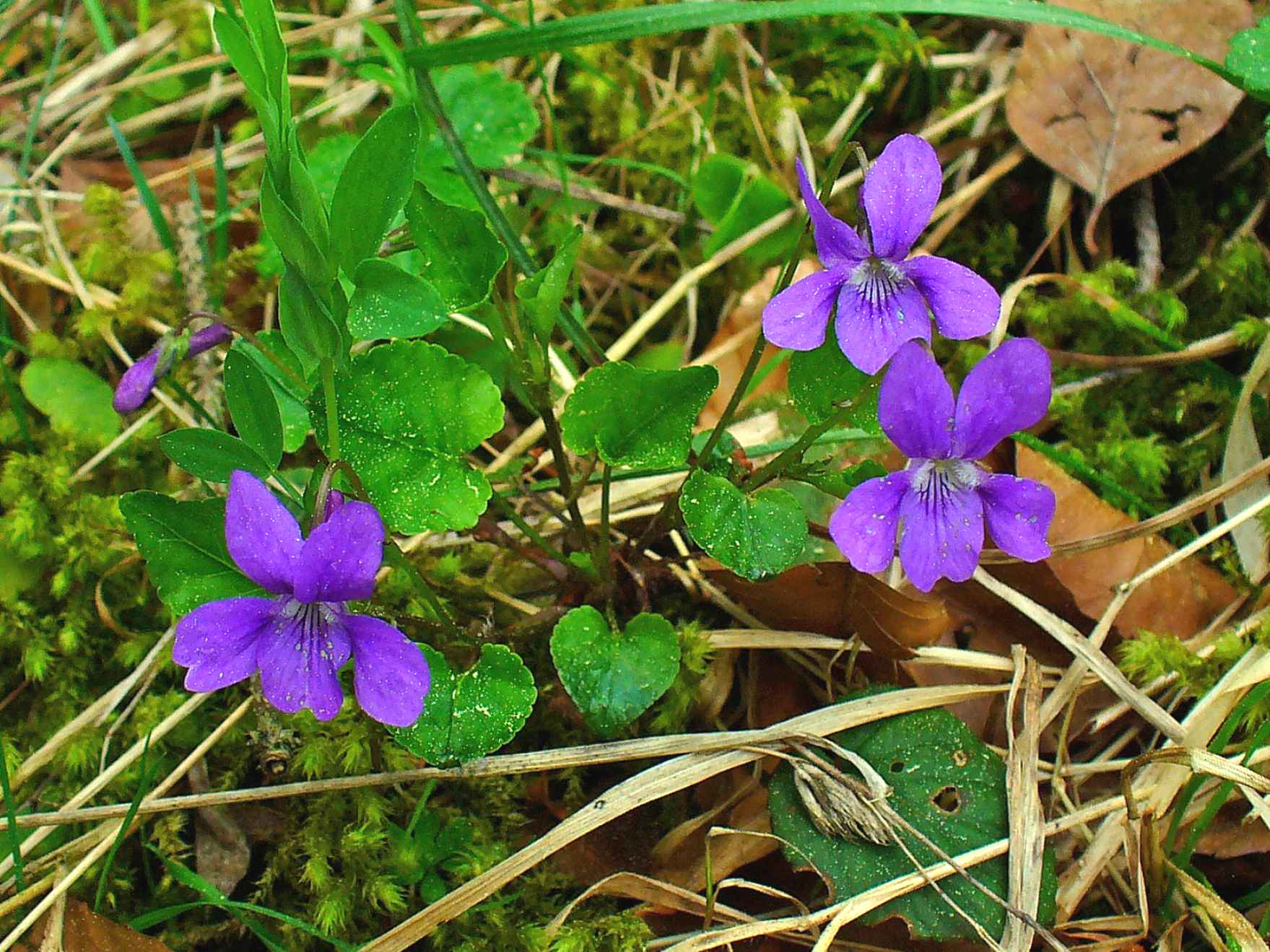 Viola reichenbachiana, Violaceae, Early Dog-violet, habitus; Eßlingen, Germany.